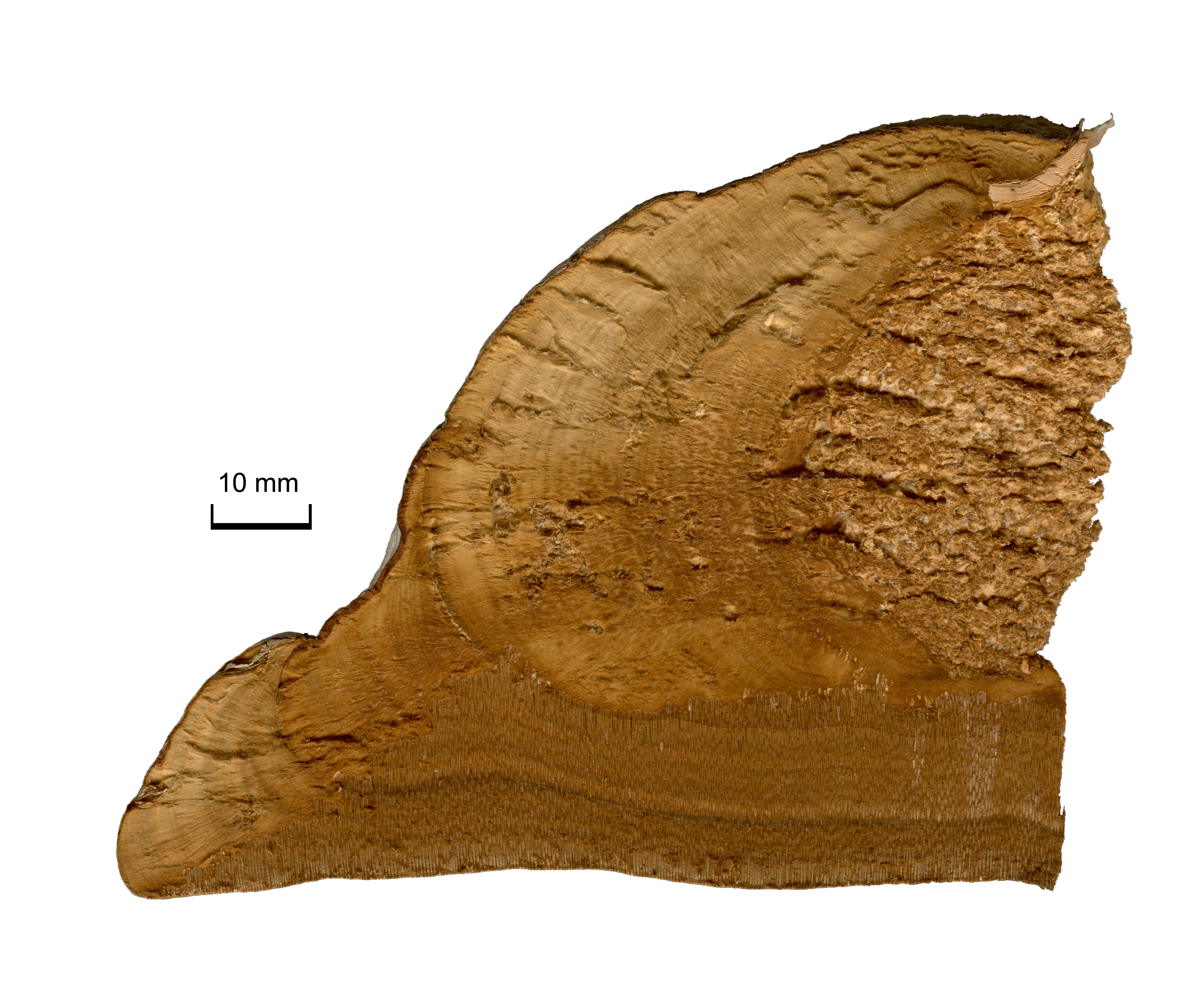 Tinder fungus (Fomes fomentarius) in section.